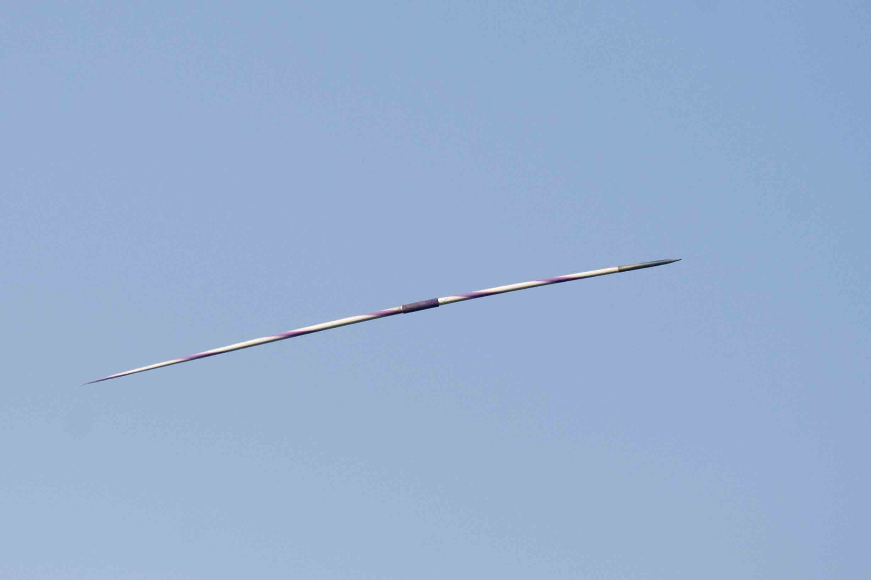 Javelin throw Bislett Games Oslo 2008